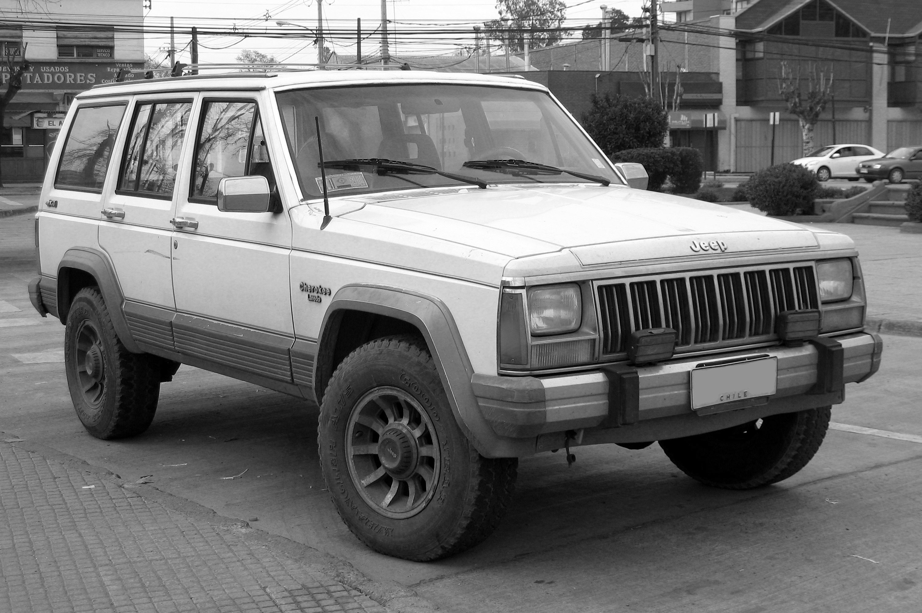 Jeep Cherokee 4.0L Laredo 1989.